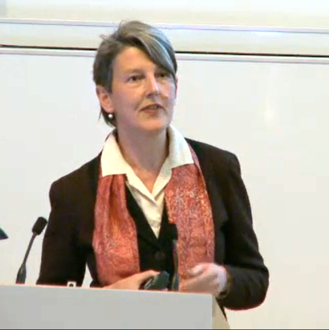 Penelope Curtis presented at Said Business School 5 May 2011 uploaded 2015